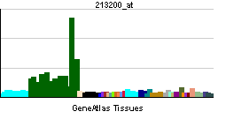 Gene expression pattern of the SYP gene.